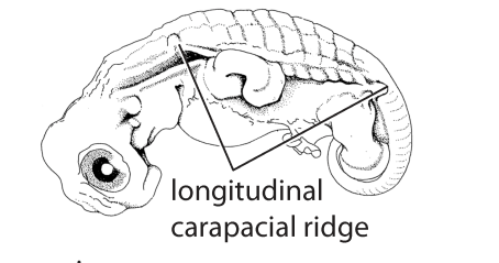 Standard Event System character depiction